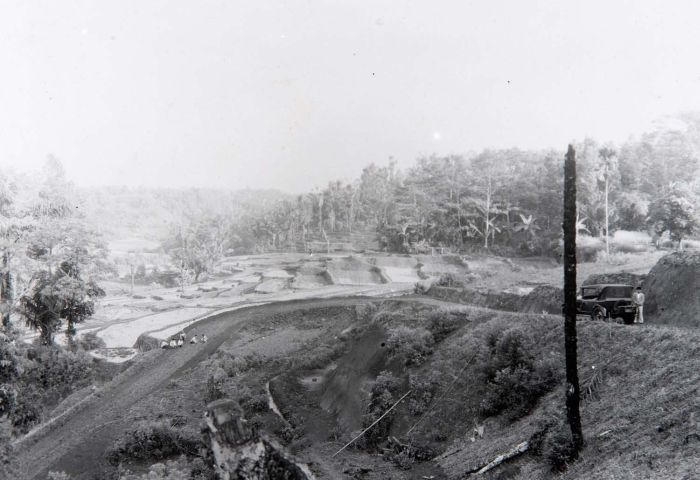 Car on the road between Wanayasa and Preanger